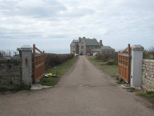 Porthledden House This house was built by Captain Francis Oates, a local man who made his fortune in South Africa and eventually became Chairman of De Beers. More information is available here